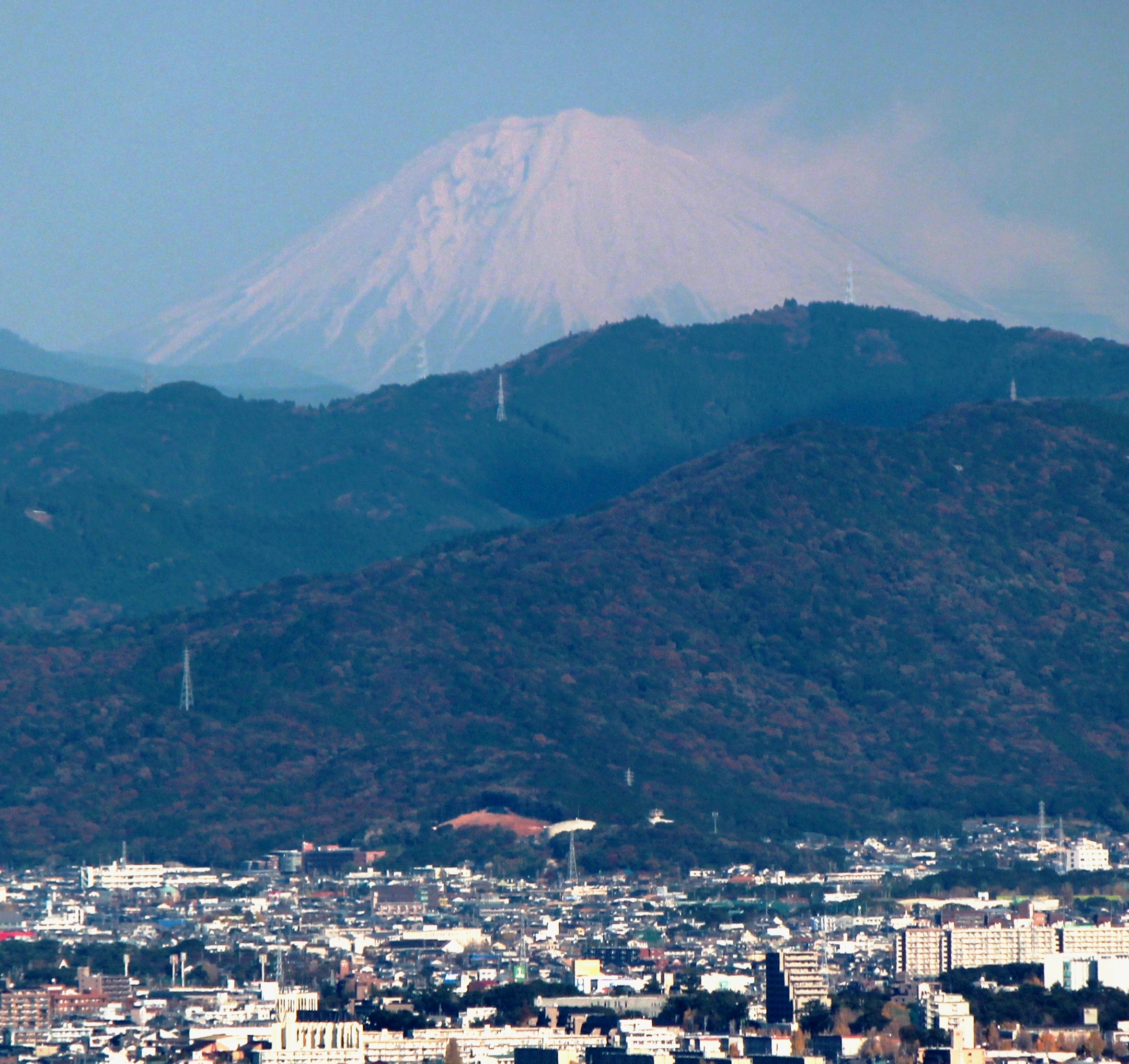 Mount Fuji from Mount Zao in Atsumi Peninsula, Japan.